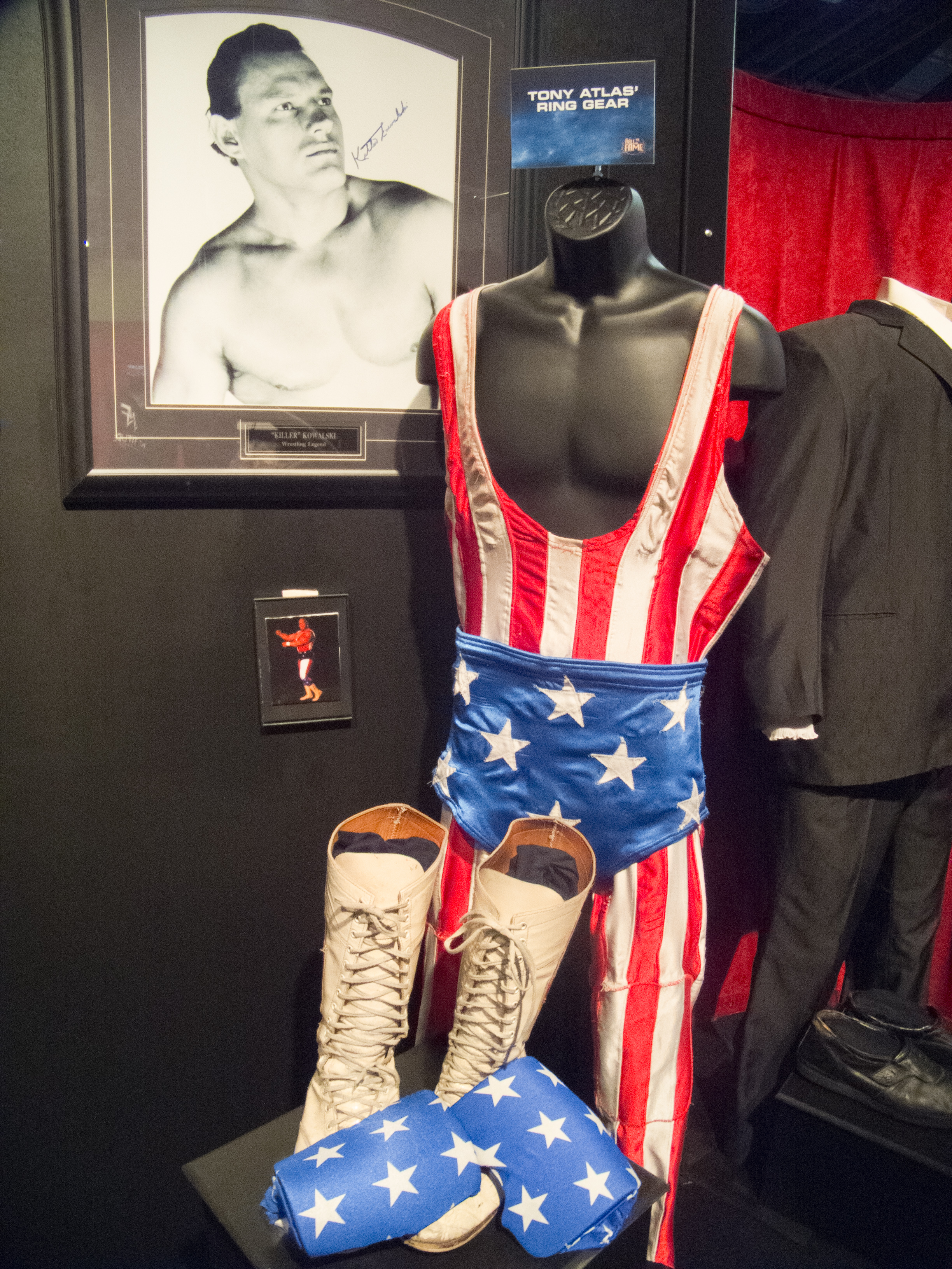 WWE Fan Axxess - Classic Memorabilia/Ring Gear